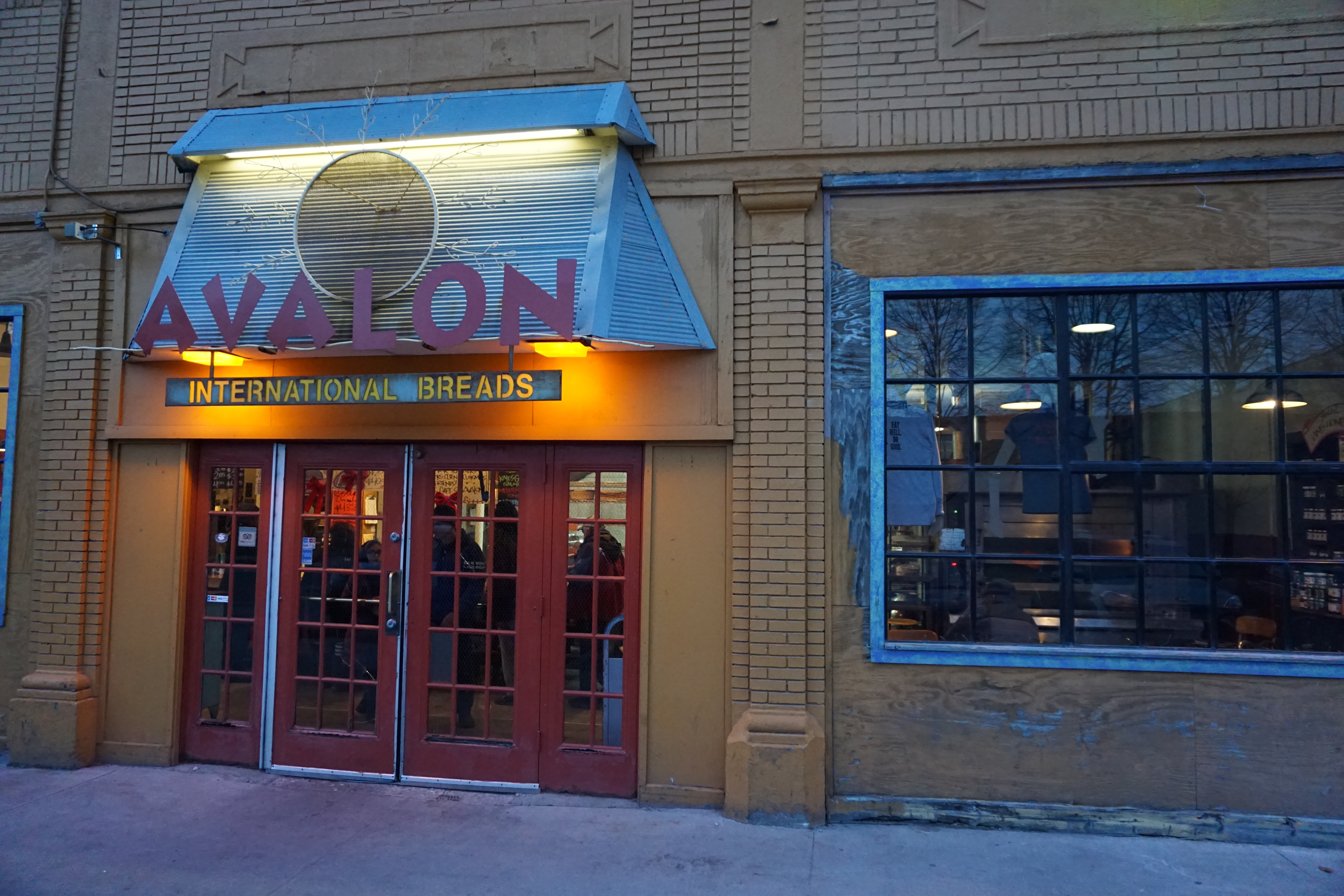 The exterior of Avalon International Breads in Detroit, Michigan (United States).